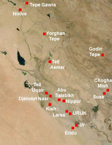 Main site of the Uruk period in Mesopotamia and Western Iran.